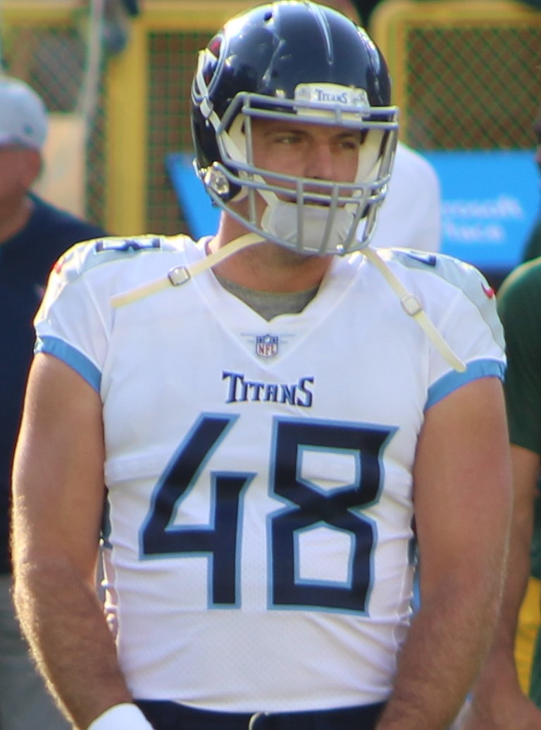 Beau Brinkley, Tennessee Titans at Green Bay Packers (Preseason), August 9, 2018